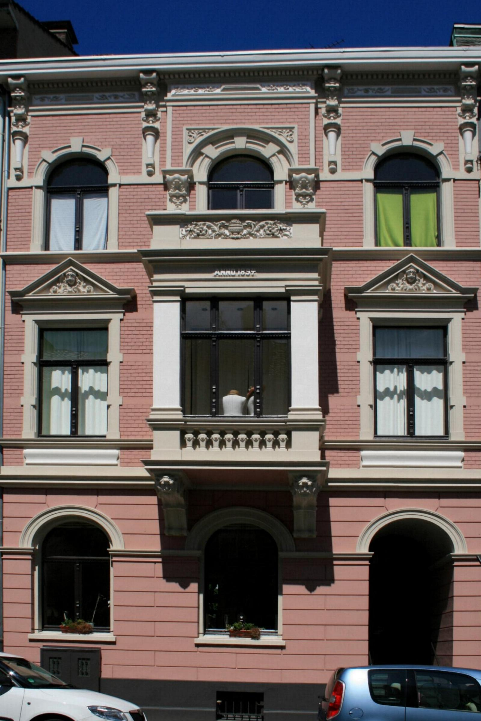 Cultural heritage monument No. K 049 in Mönchengladbach